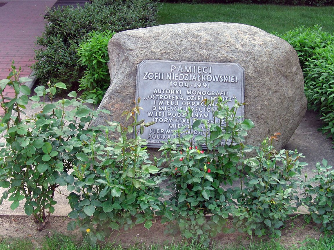 City of Ostroleka (Poland), memorial plaque of Zofia Niedzialkowska - one of the most famous citizens of Ostroleka.